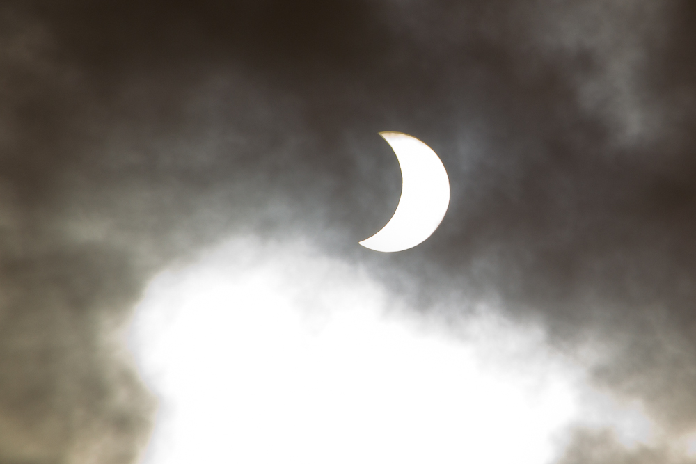 The Solar Eclipse from Tauranga, seen at about 10:15 AM